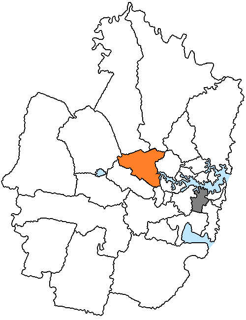 Map of Sydney/New South Wales/Australia, LGA of Parramatta City highlighted